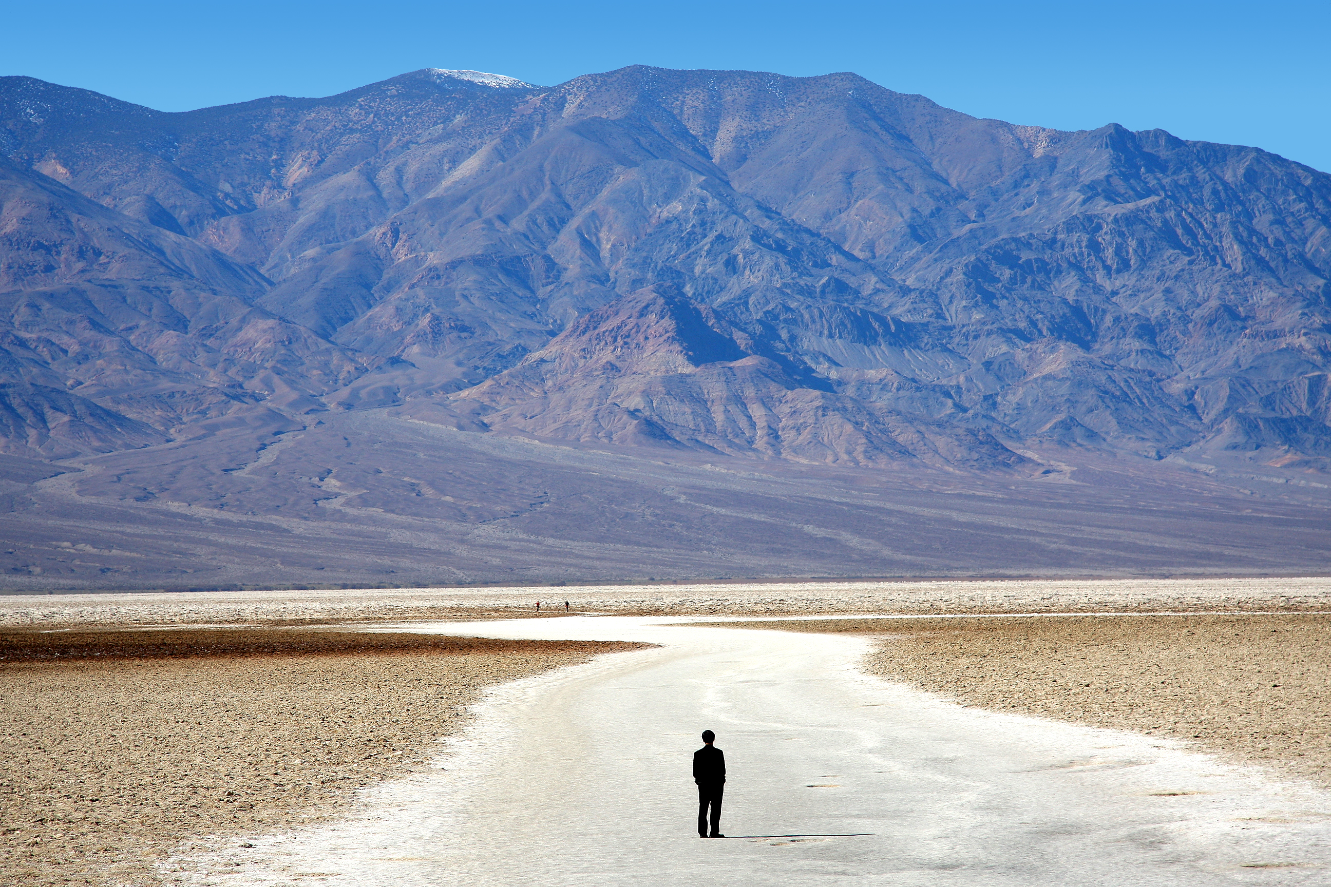 Desolation at Badwater Salt Flats in Death Valey